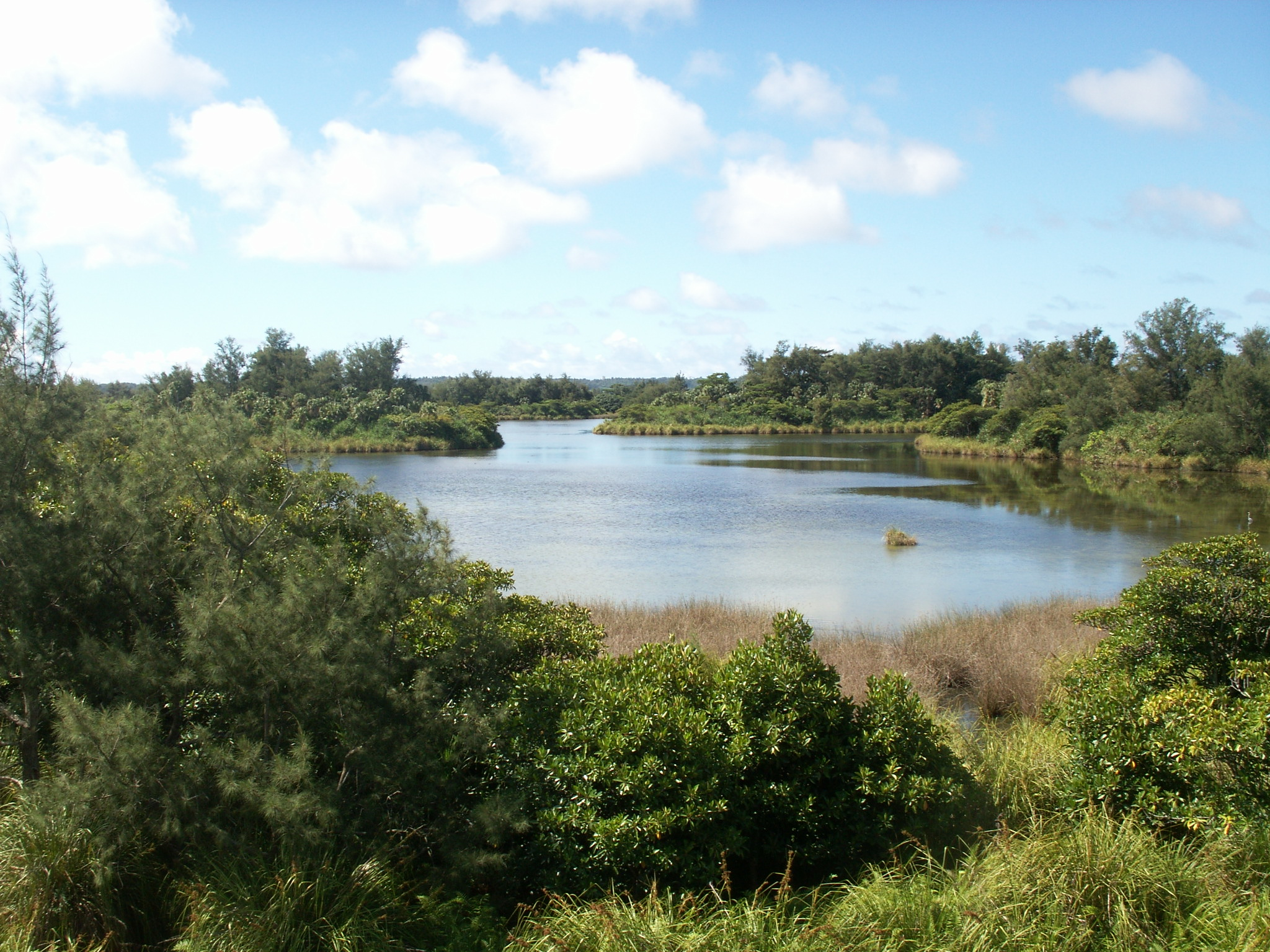 Ōike, the pond in Minamidaito Village in Okinawa Prefecture, Japan.